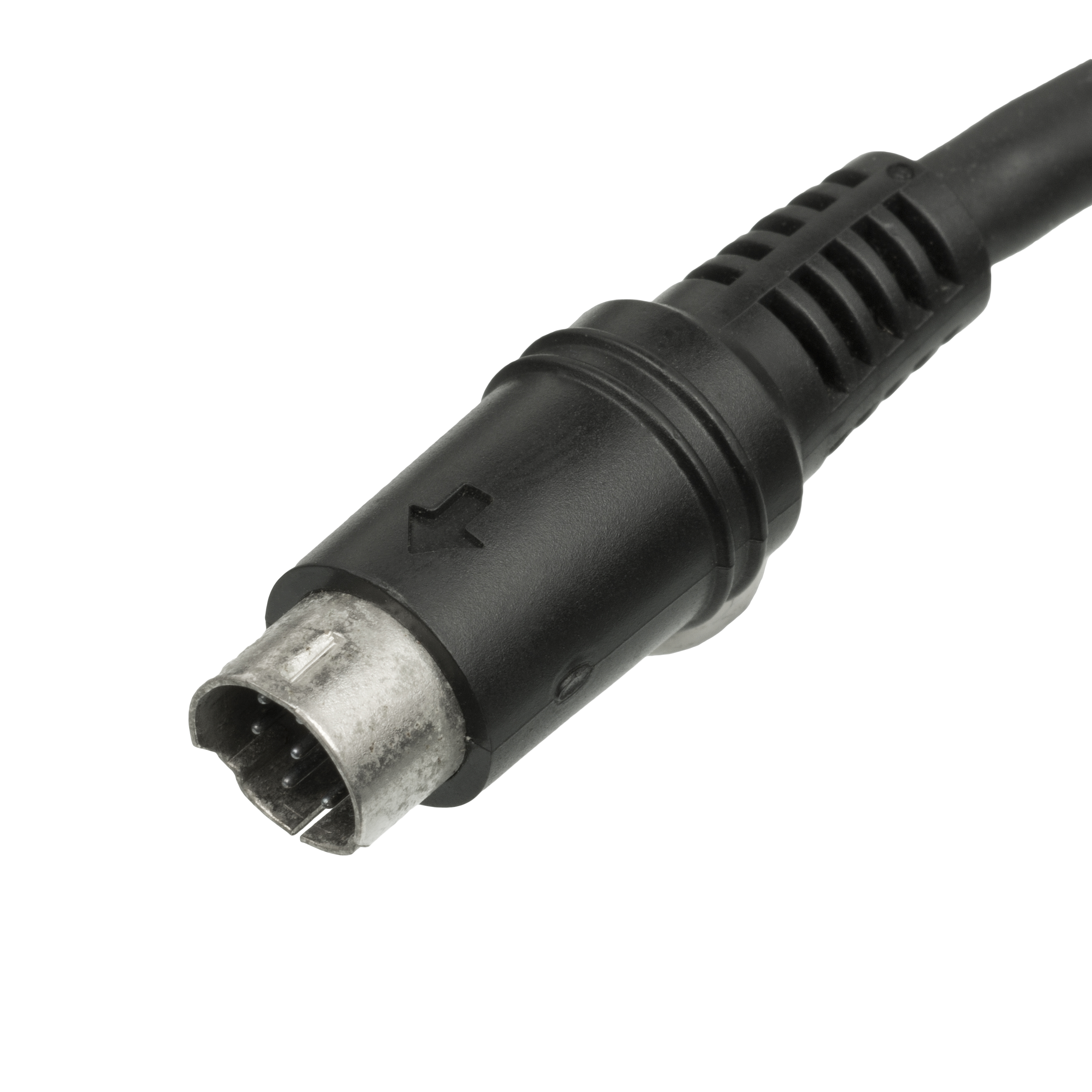 A close-up of the connector plug for the controller cable of an NEC PC Engine video game console.